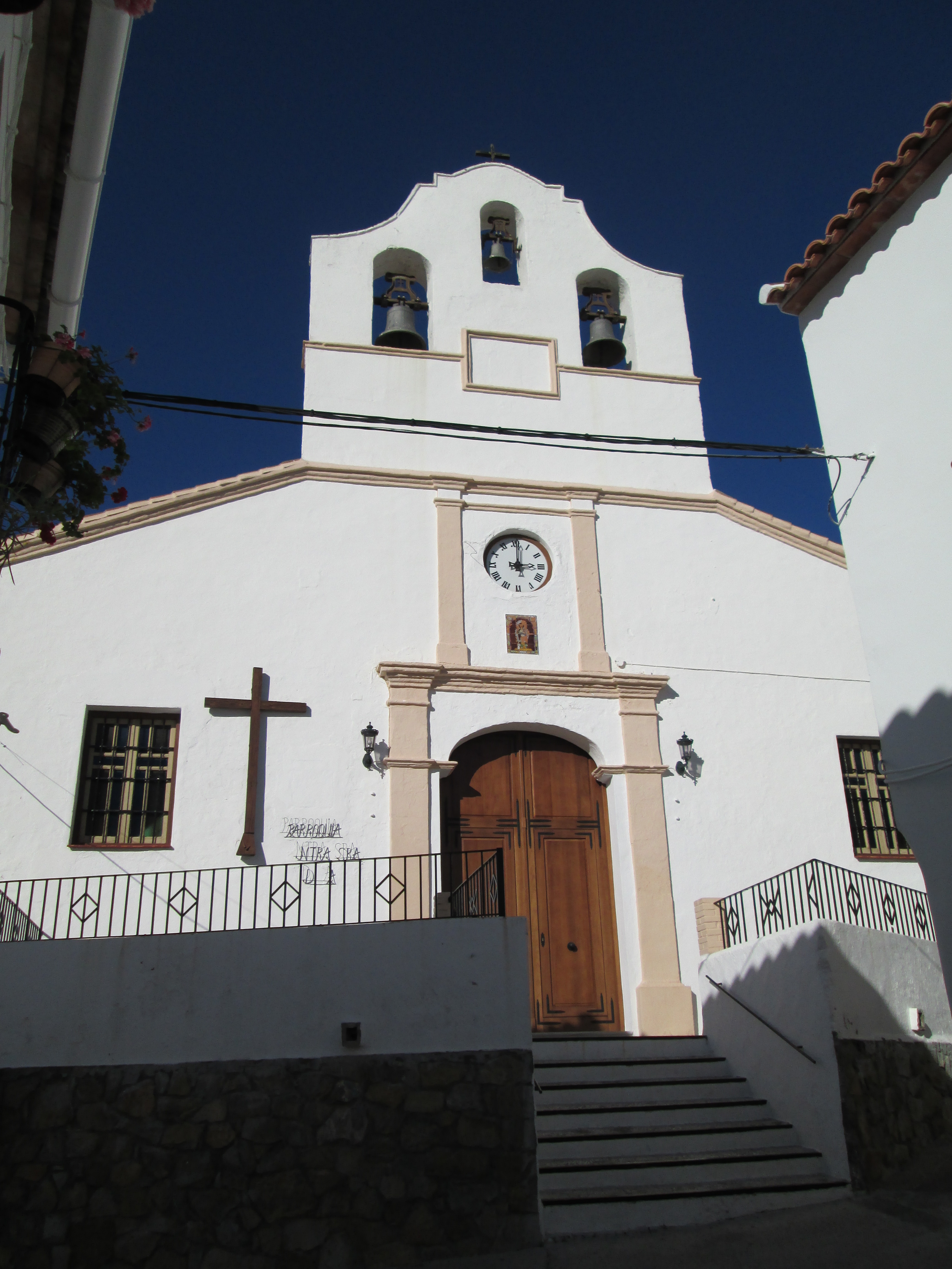 Church of our Lady of la Salud, Carratraca